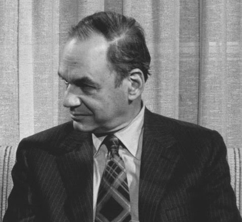 Edwin Newman, NBC News correspondent, in 1975 TV special Hard Choices: American Foreign Policy 1976